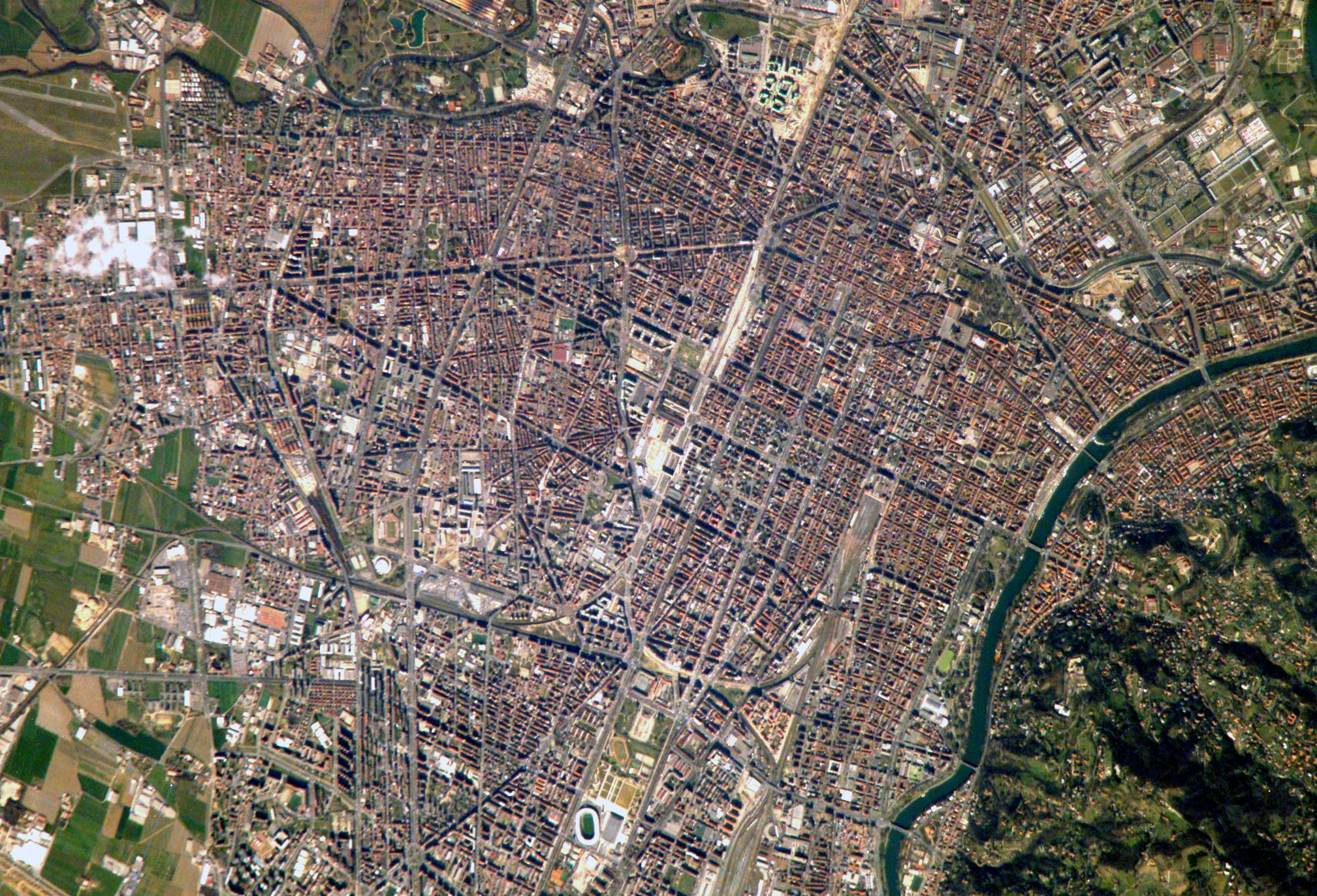 City centre of Turin - Italy. North up